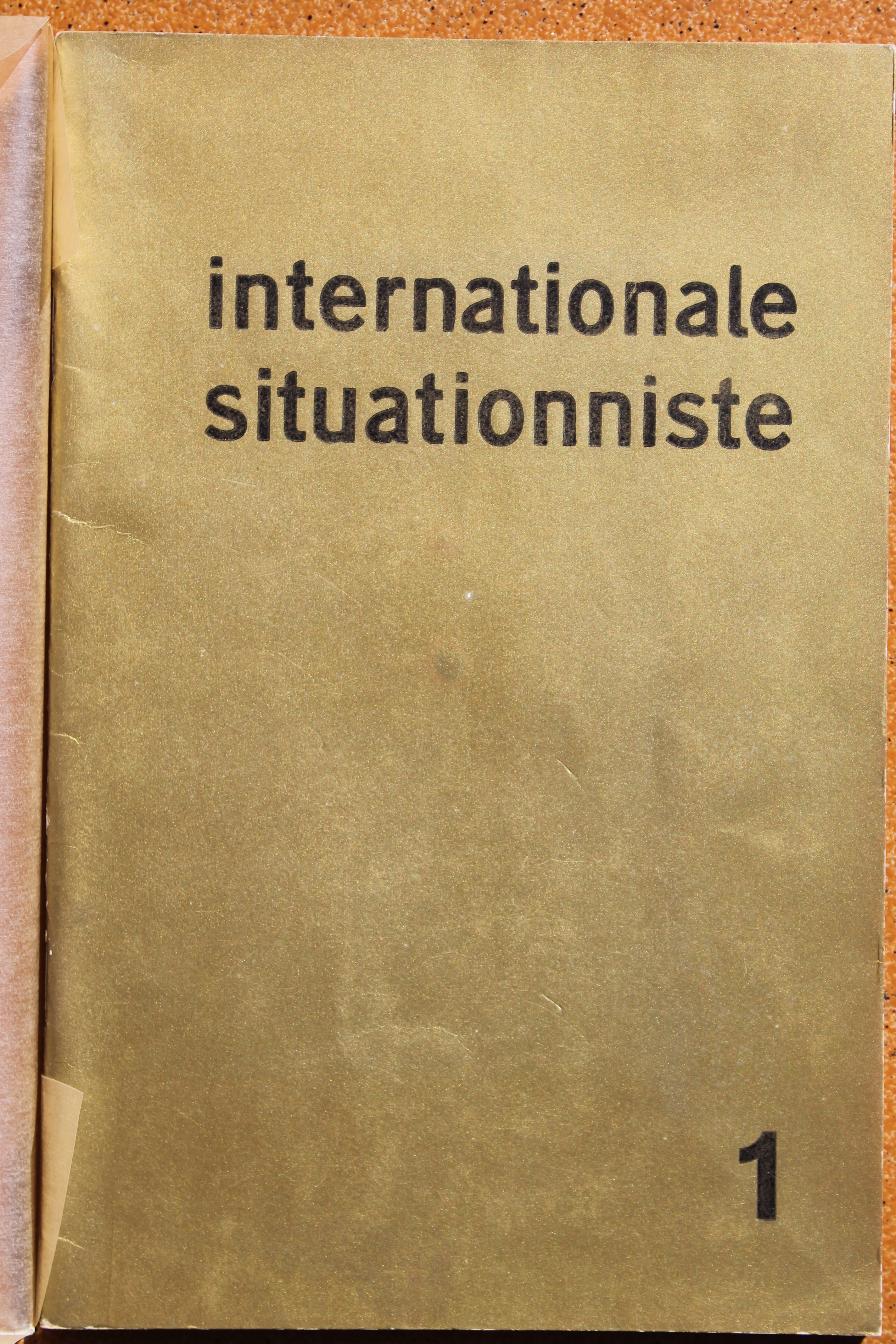 Internationale situationniste nº1